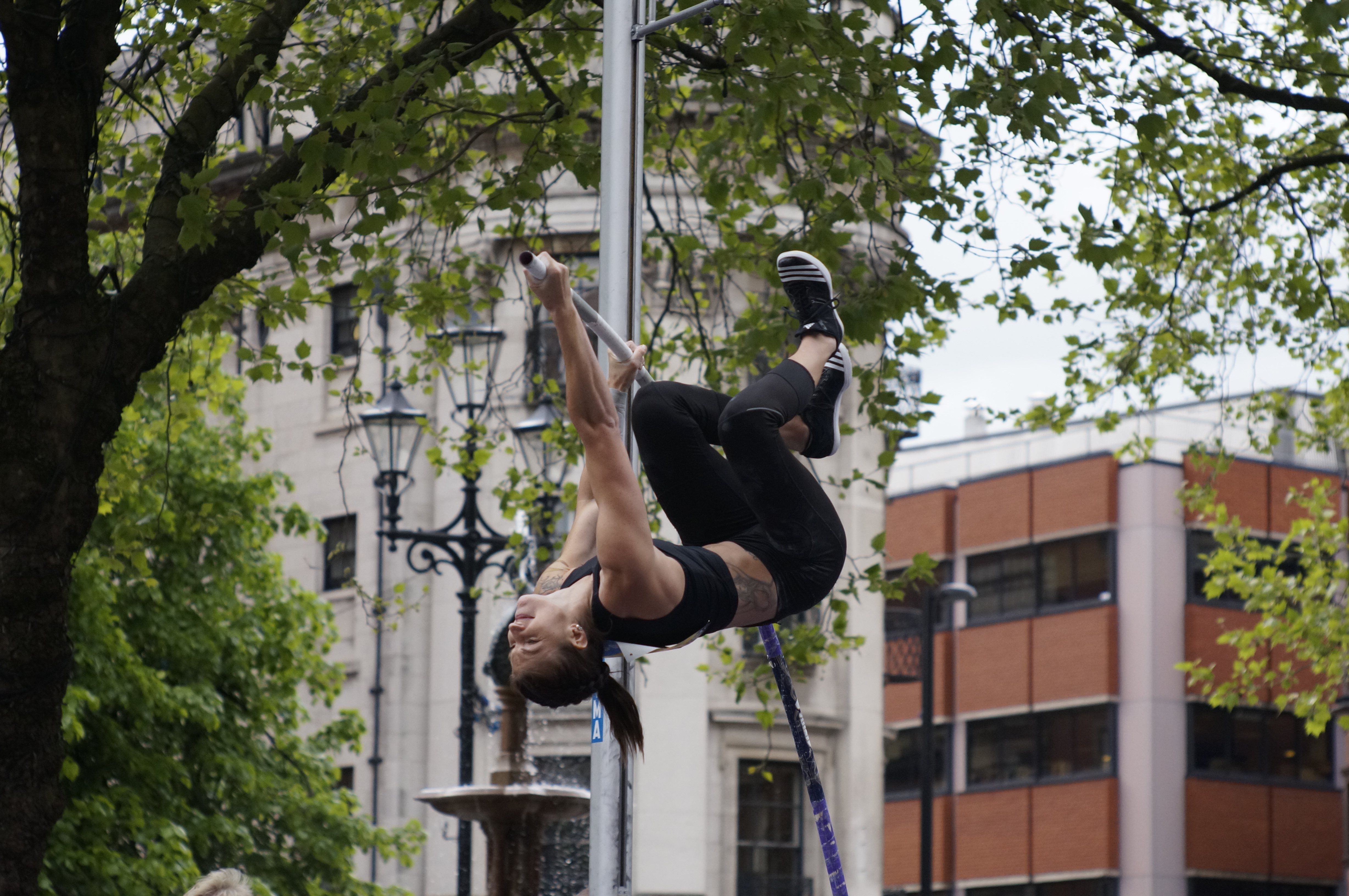 Great City Games Manchester 2016 Pole Vault